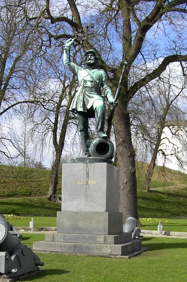 The statue Landsoldaten (The Foot Soldier) by sculptor Herman Wilhelm Bissen is located in Fredericia, Denmark.